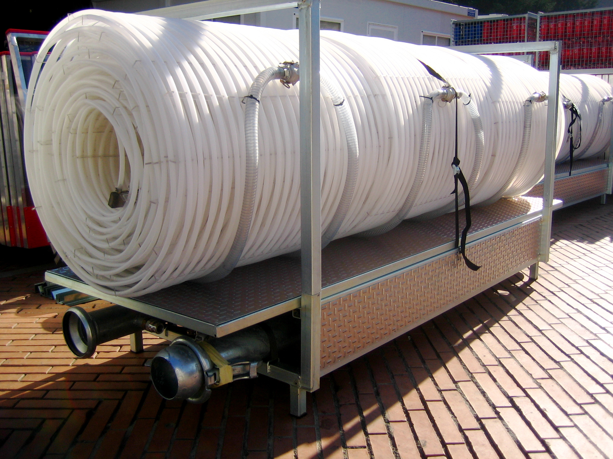 IceBox with colectors and ice floor for ice rink. In Granollers